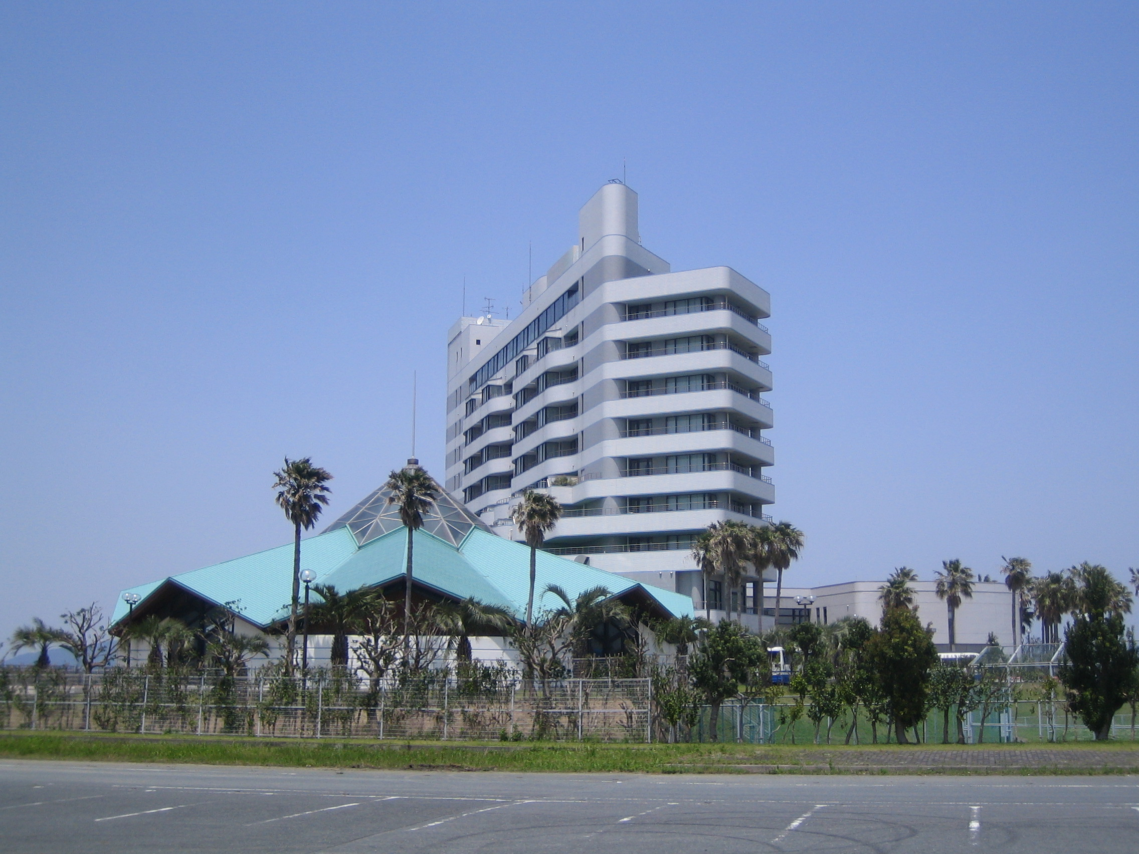 Hotel Seapalace Resort (ホテルシーパレスリゾート), located at Minowari, Jinno-Shindencho, Shinshiro, Aichi, Japan